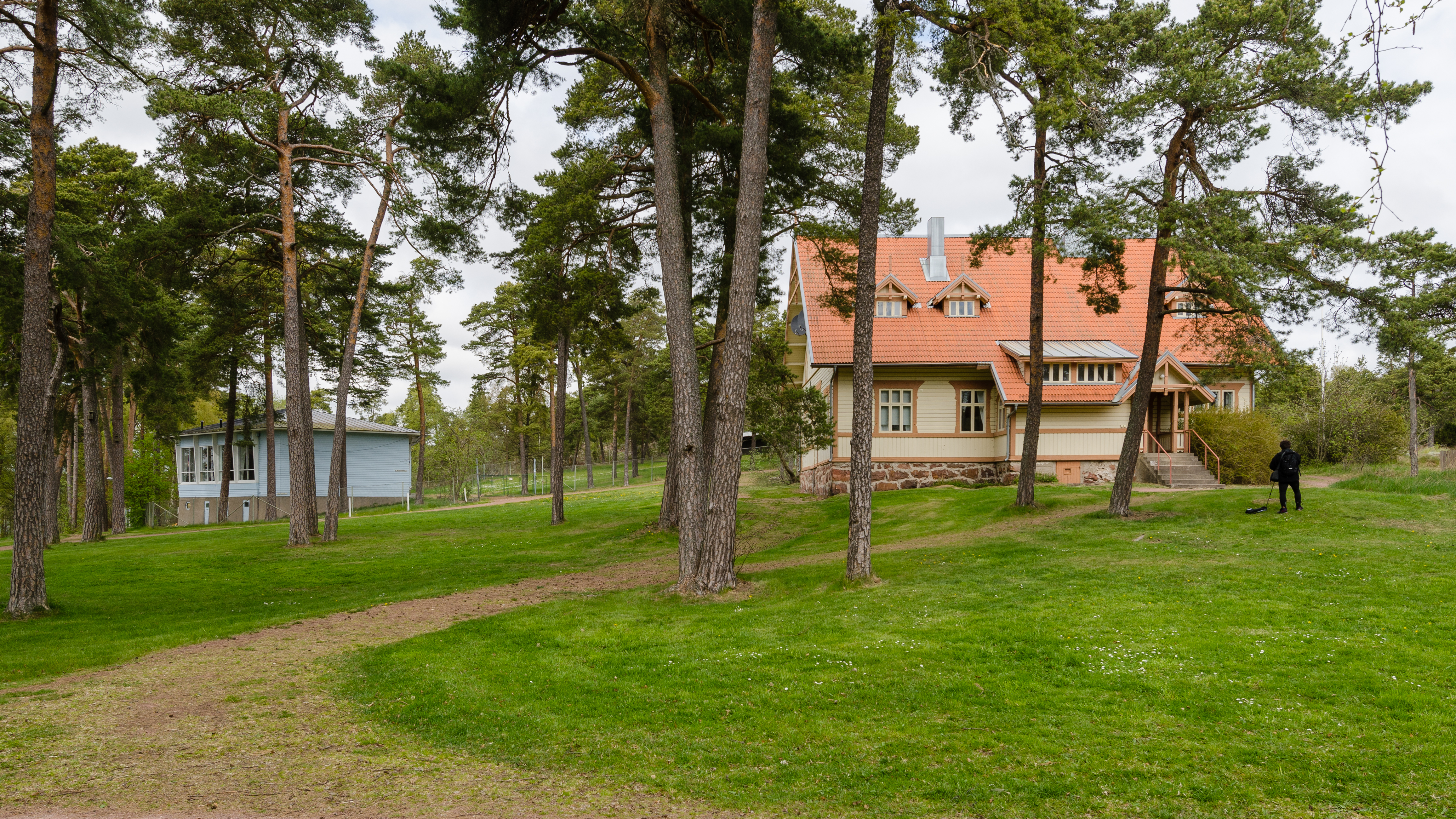 Badhusparken, Mariehamn